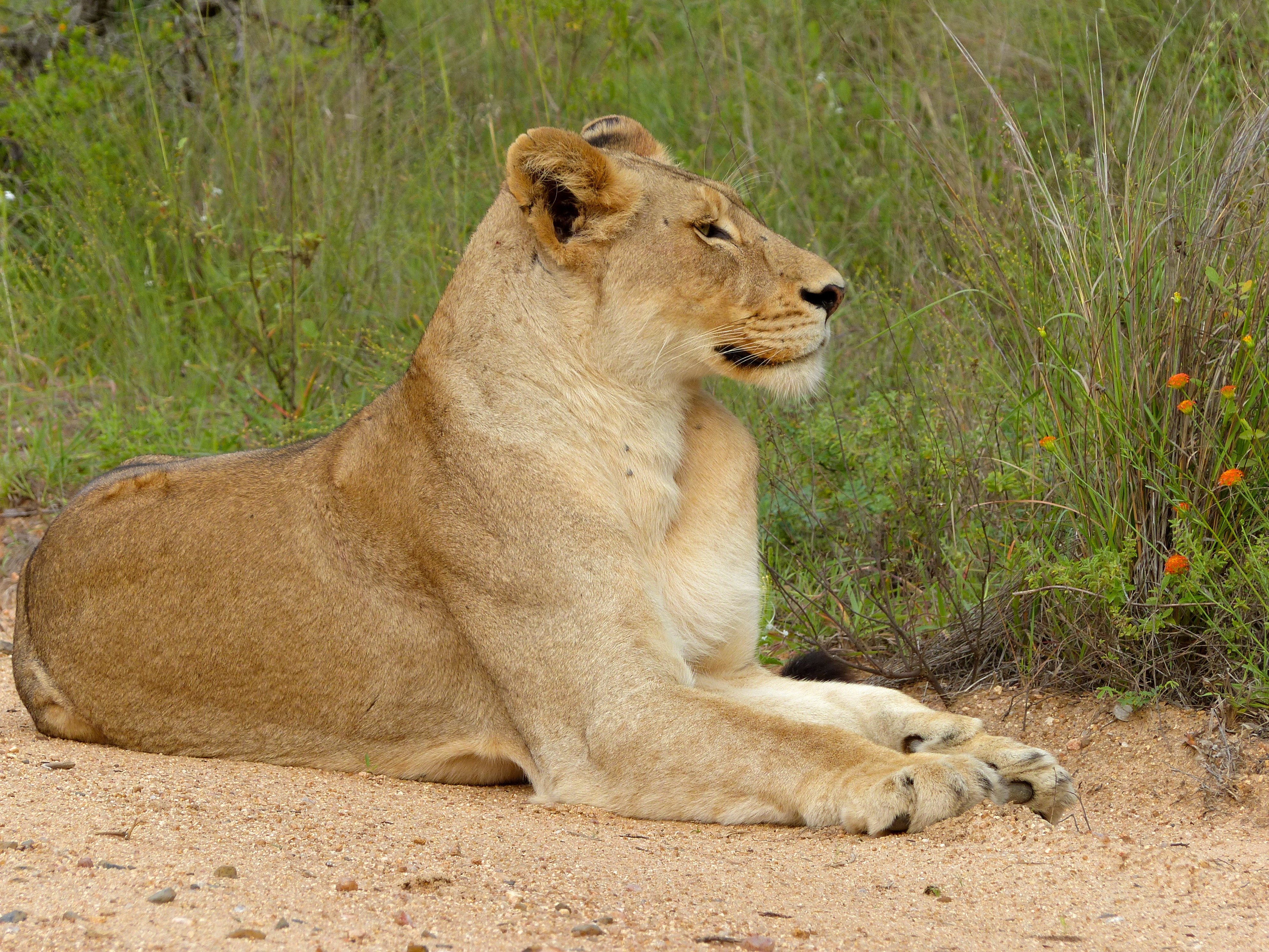 Rabelais Loop, East of Orpen, Kruger NP, SOUTH AFRICA